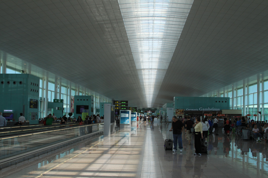 Barcelona T1 interior